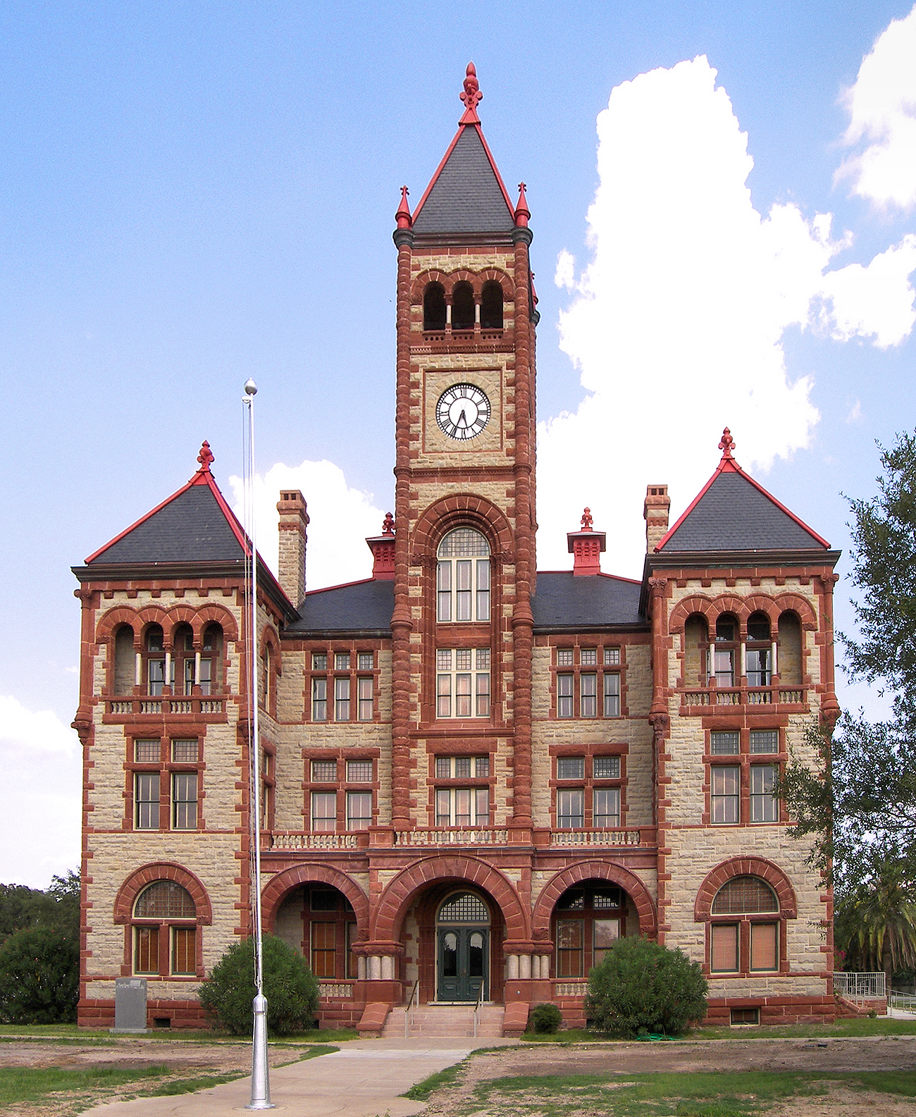 The DeWitt County, Texas courthouse located in Cuero, Texas, United States. The courthouse was designated a Recorded Texas Historic Landmark in 1966 and listed on the National Register of Historic Places on May 6, 1971.